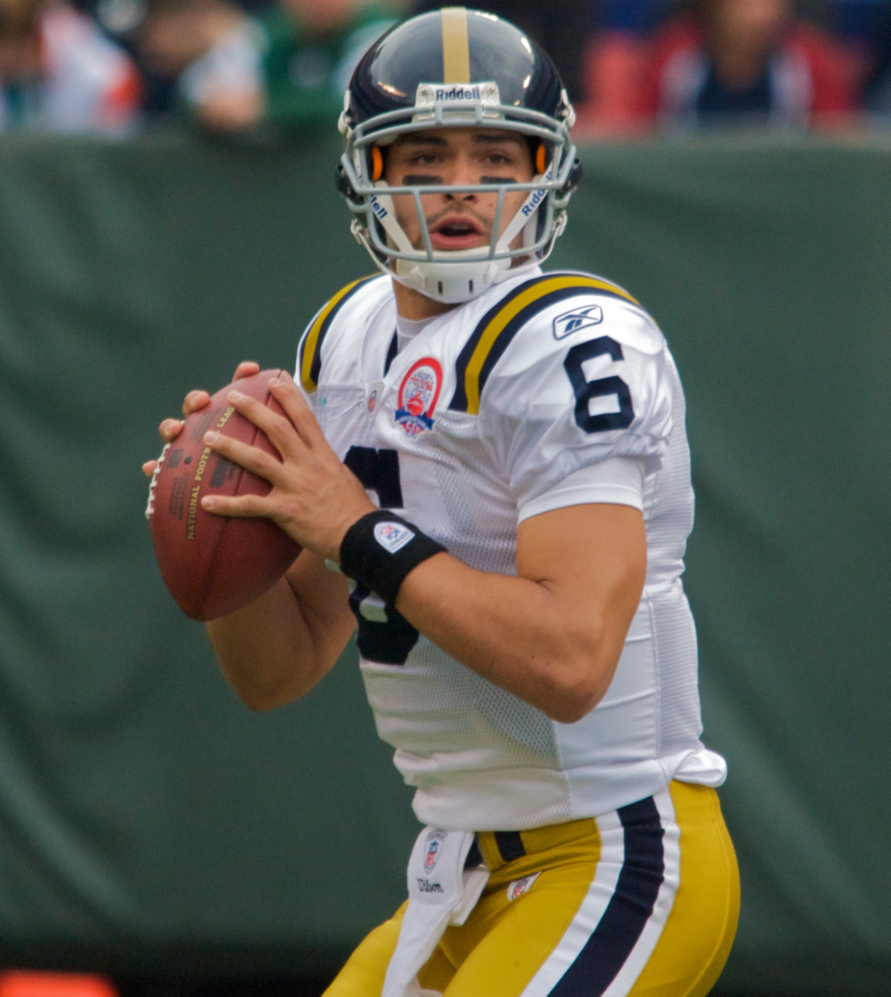 Mark Sanchez of the New York Jets in the team's New York Titans throwback uniform.